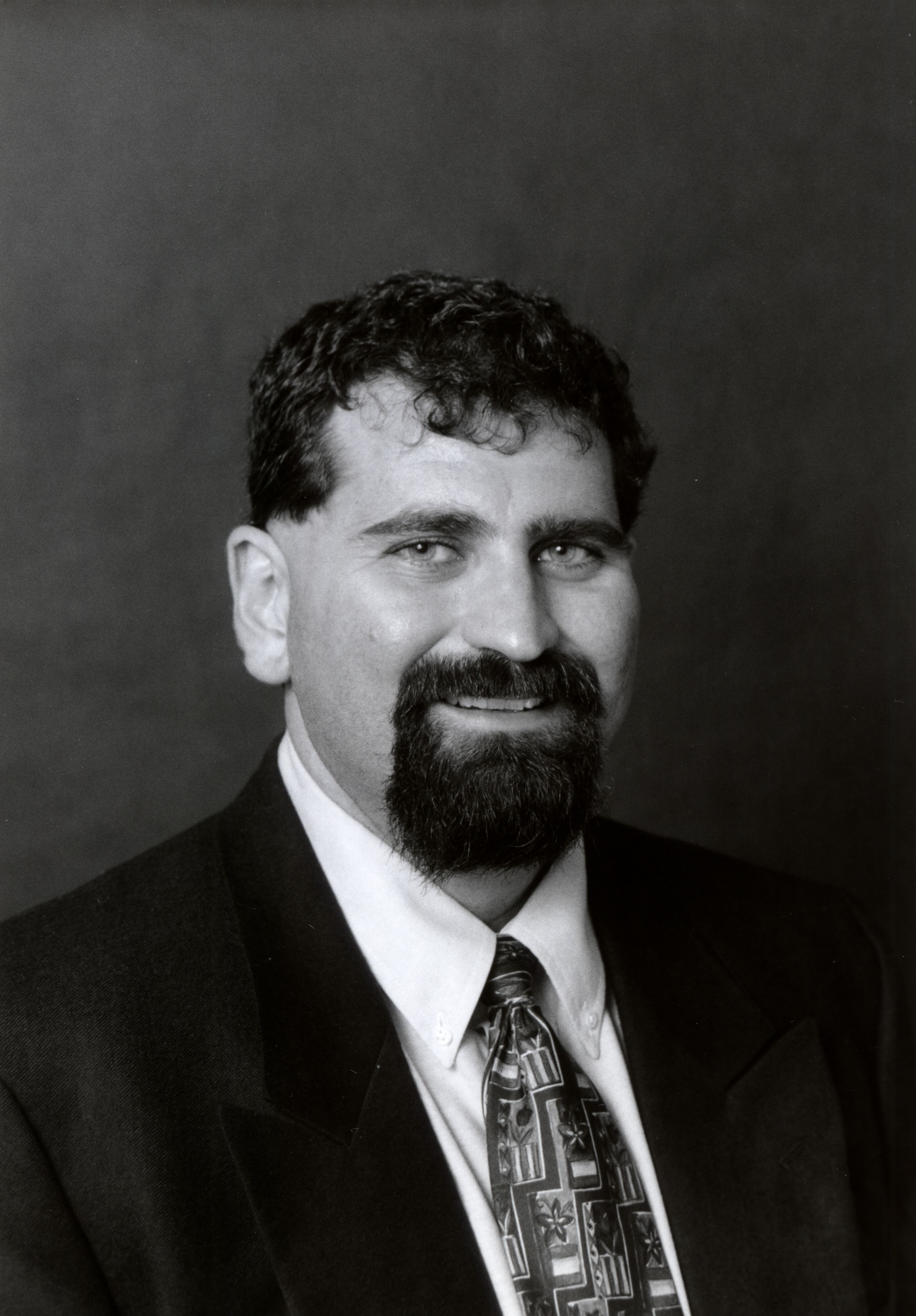 Chair of the History Department at the University of Houston